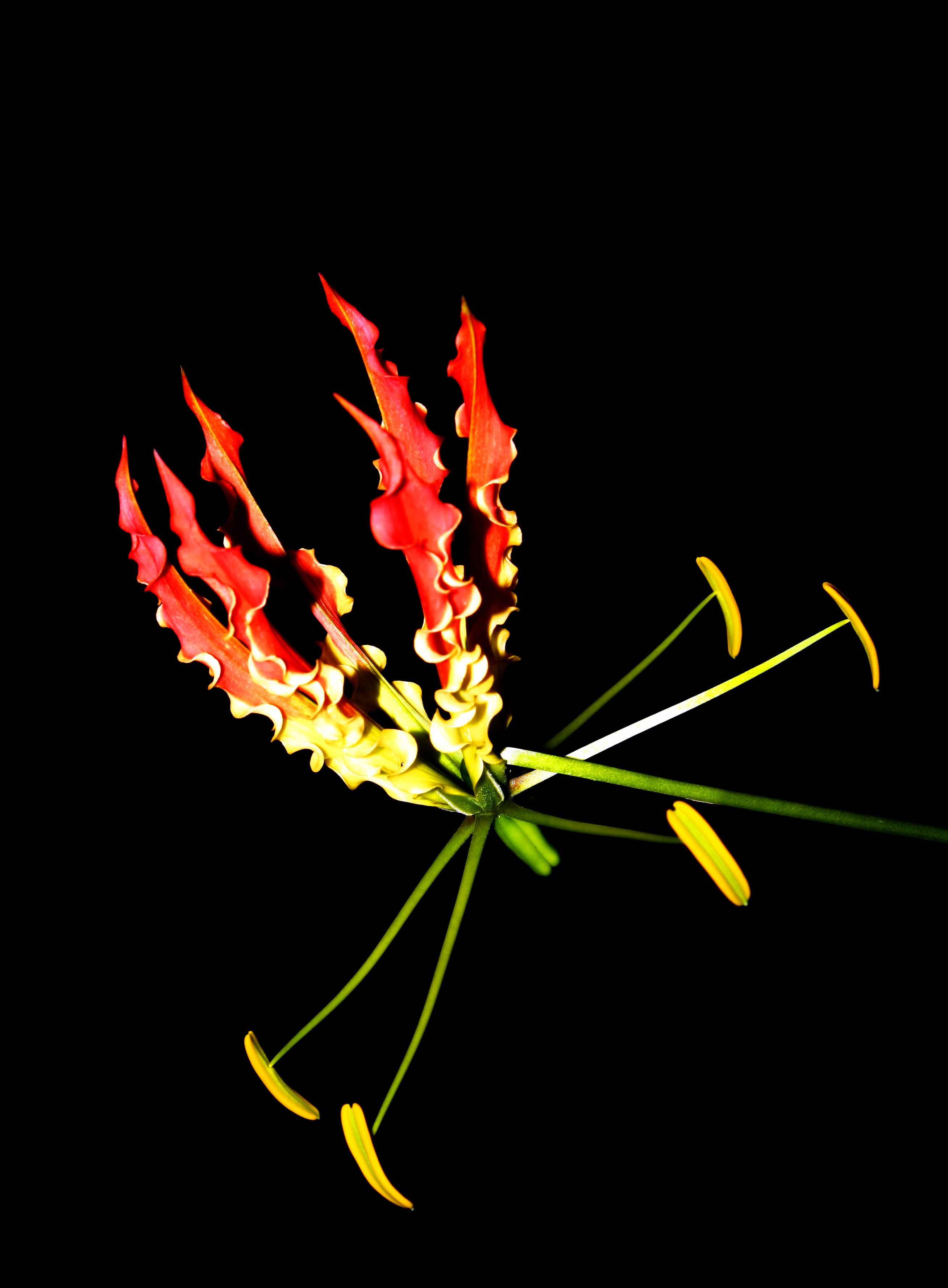 Flame lily (Gloriosa superba)